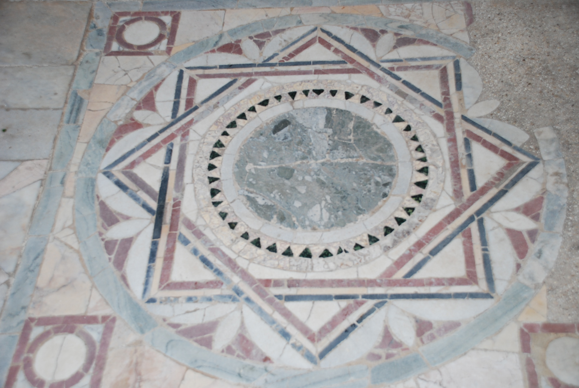 Ostia antica (archaeological site)